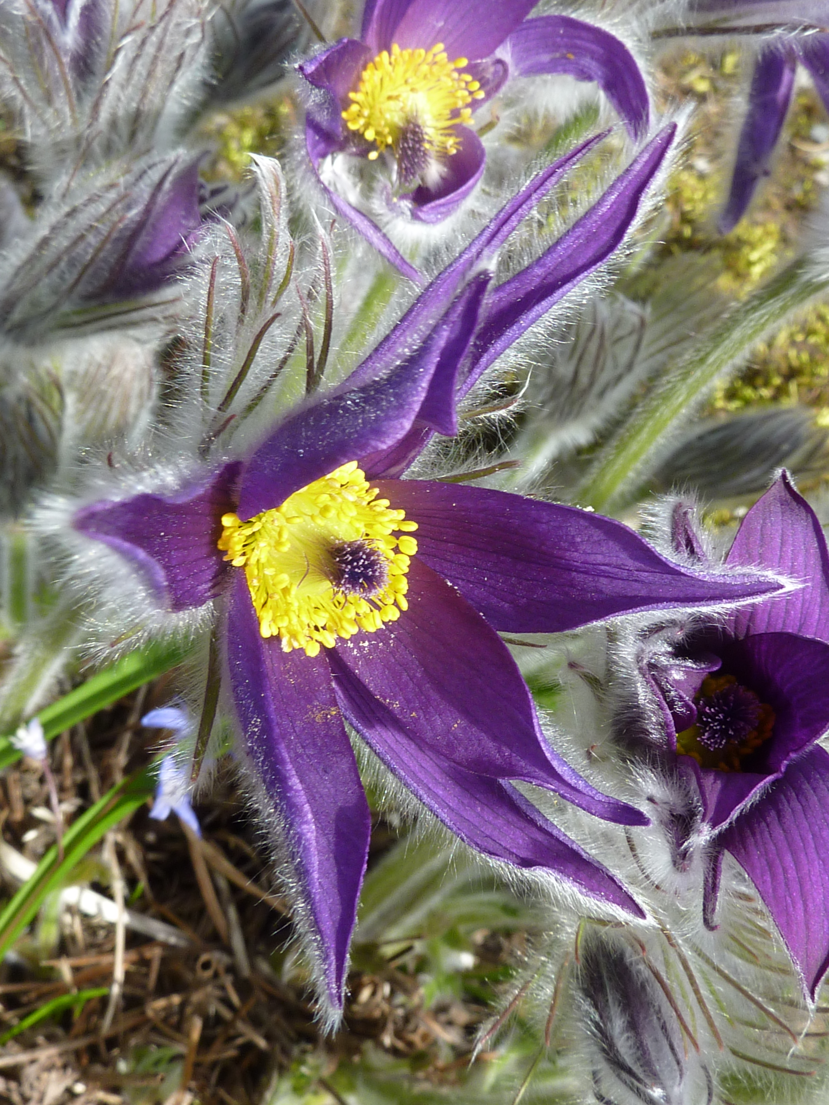 Taken in the Cambridge University Botanic Garden.